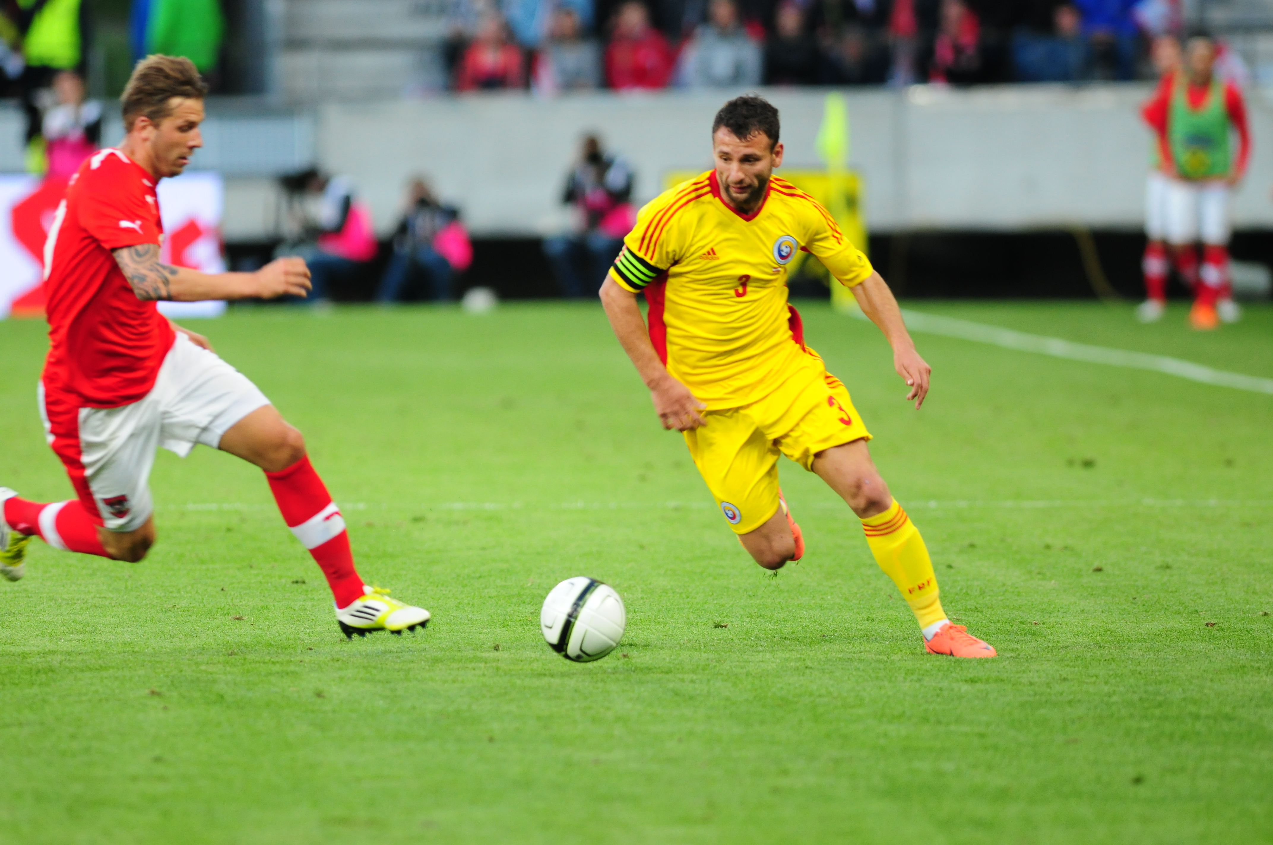 Exhibition game Austria vs. Romania at 5st. June 2012